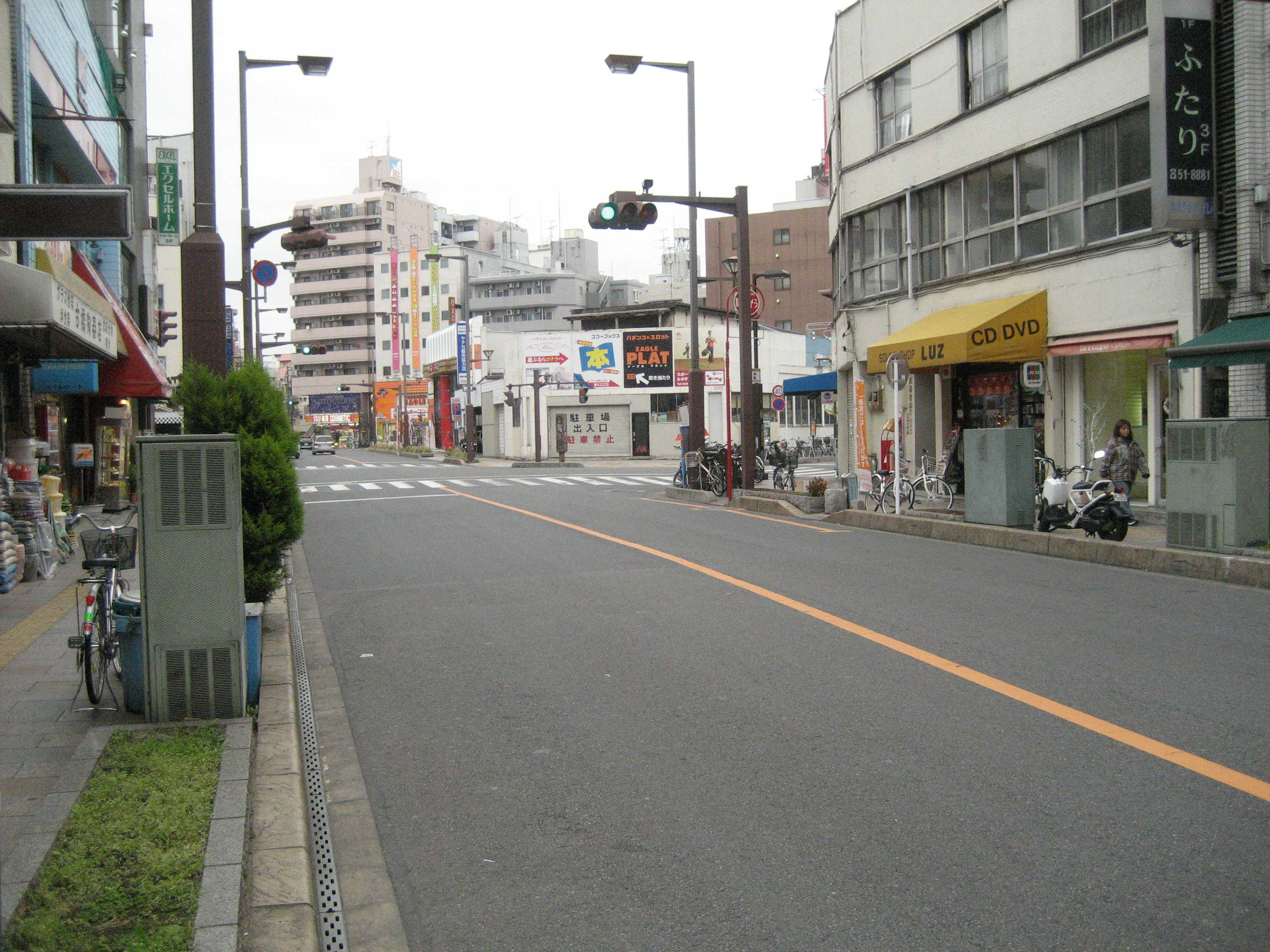 The Saitama Prefectural Road Route 110 near Nishi-Kawaguchi Station